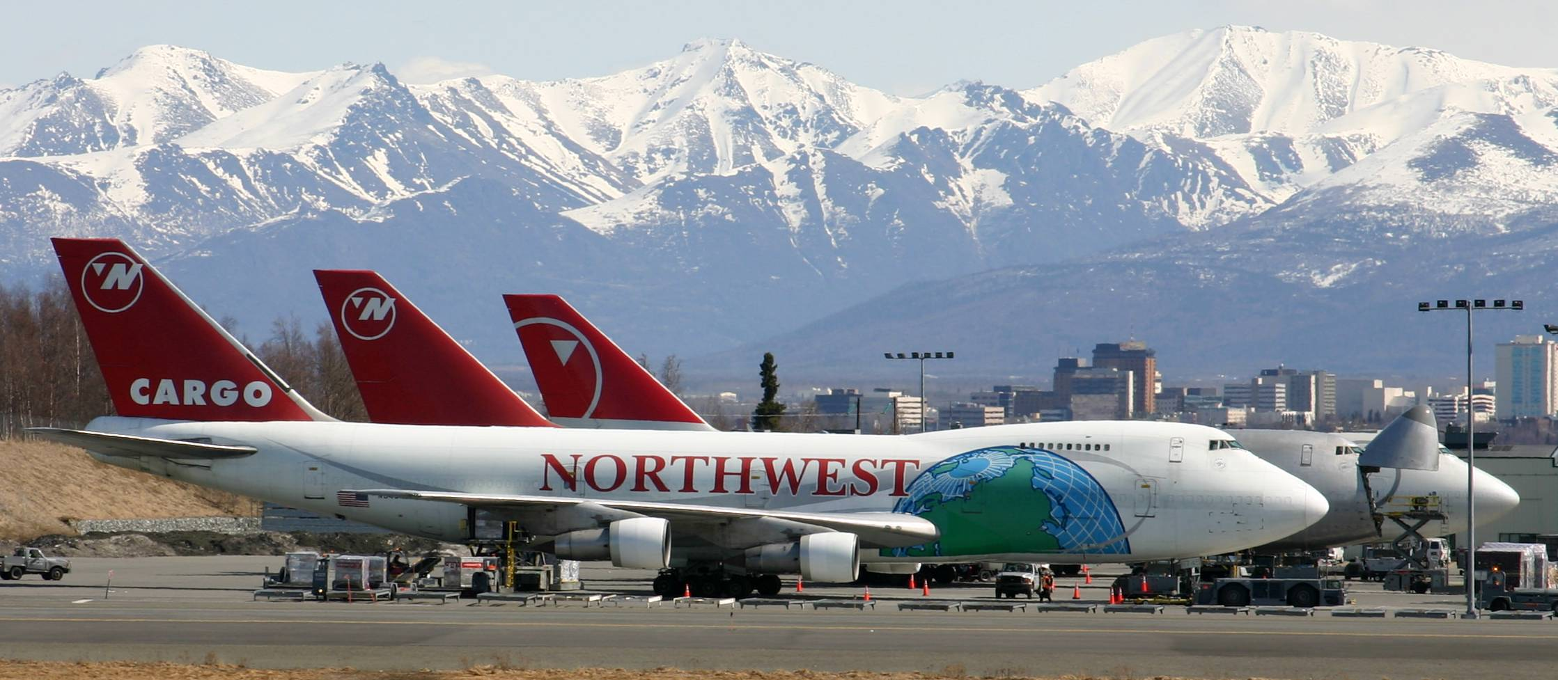 Taken on a nice day in early May 2008 at Ted Stevens International Airport, Anchorage, Alaska.